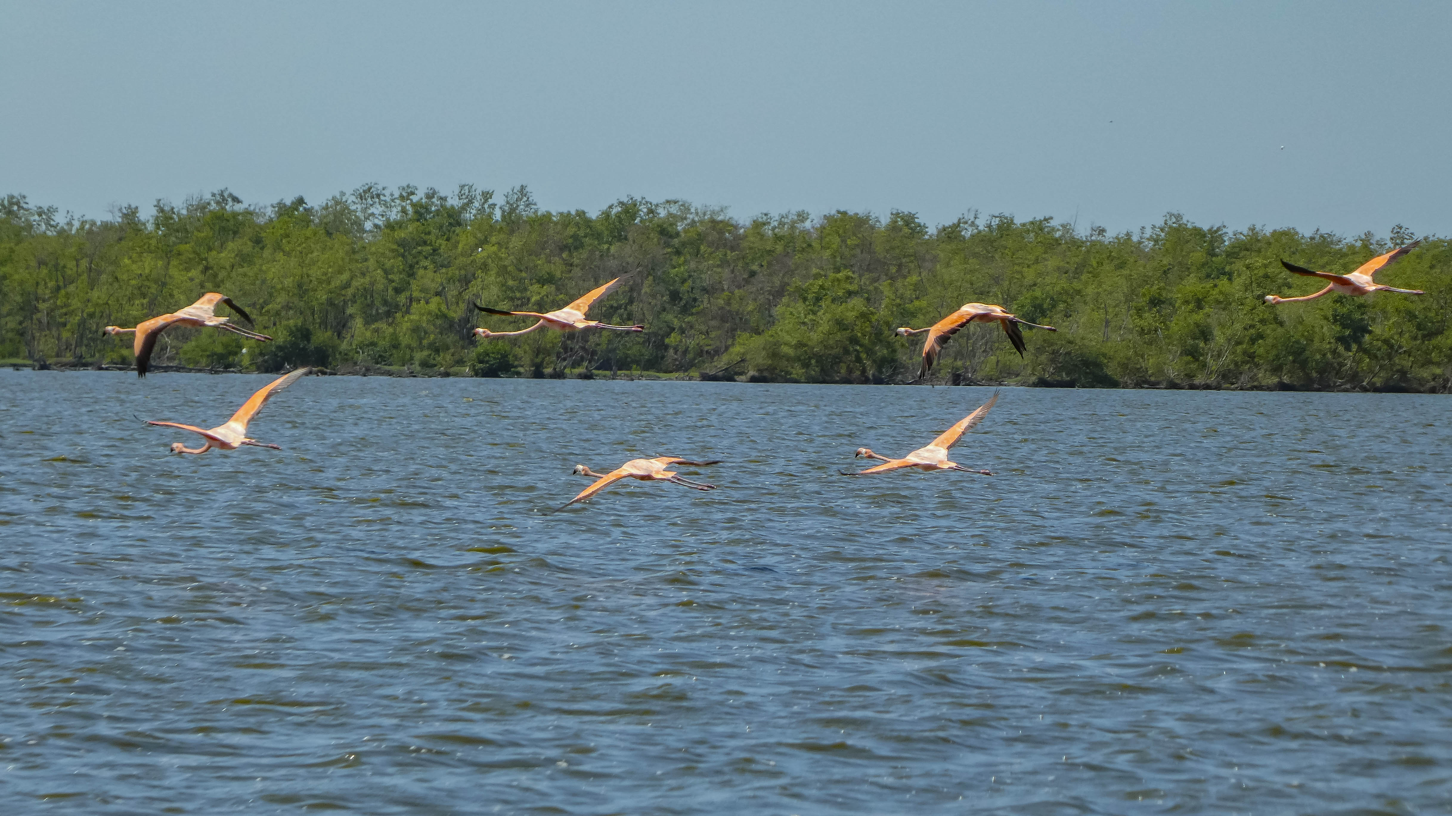 A flock of flamingo's in Bigi Pan